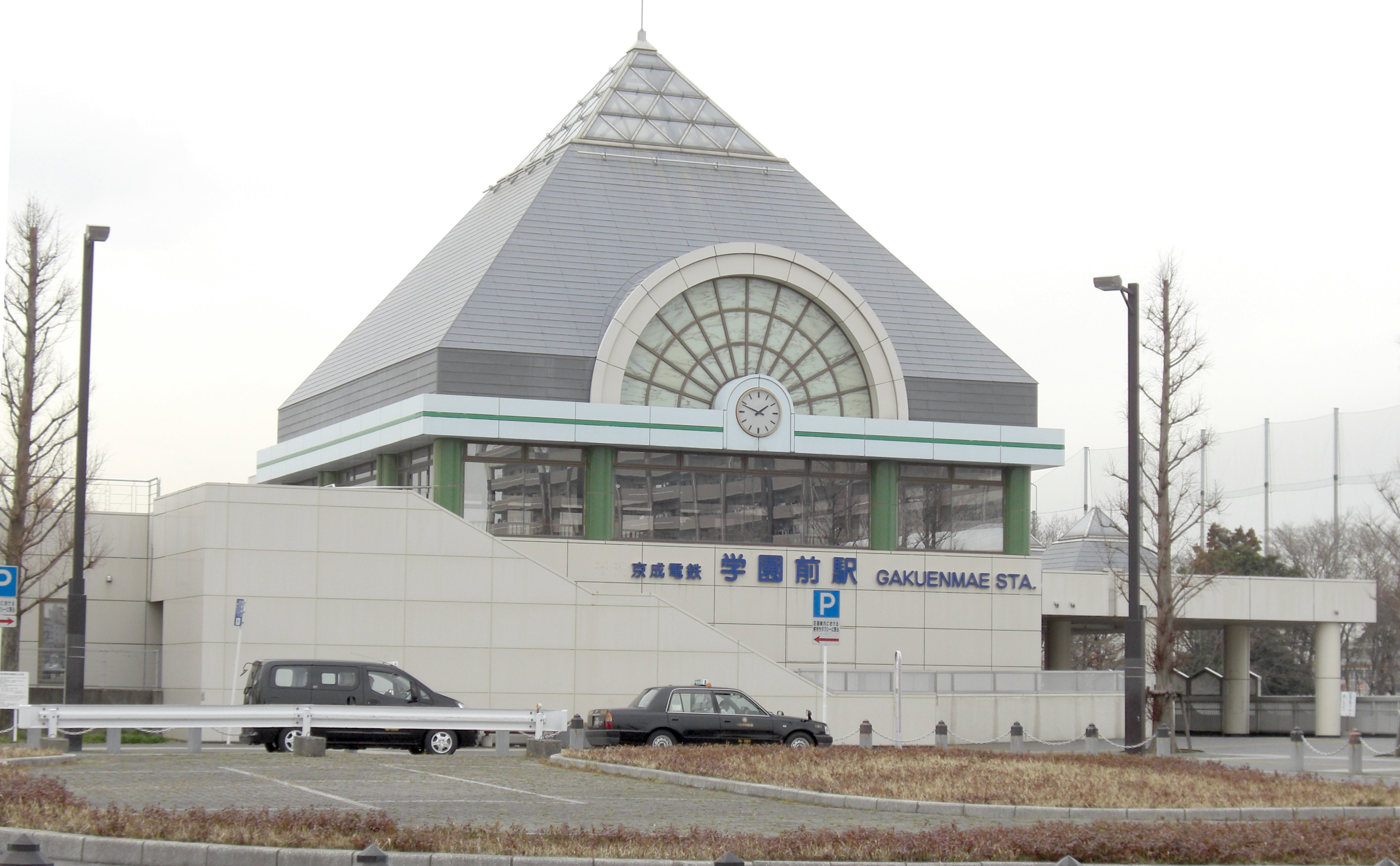 Keisei Chihara Line Gakuemmae Sta.